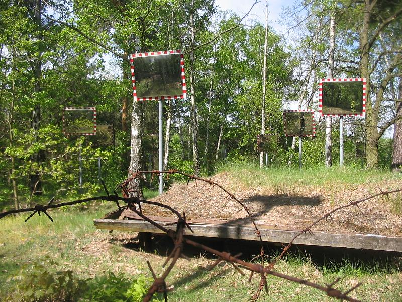 The Murellenberge, the Murellenschlucht and the Schanzenwald (german for: Murellenhill, Murellenravine, Sconceforest) are a hill-landscape from the last gacial period in Berlin-Ruhleben in the district Charlottenburg-Wilmersdorf. It is part of the Teltow-Plateau at its northside in Berlin. In the hills there is the memorial Denkzeichen zur Erinnerung an die Ermordeten der NS-Militärjustiz am Murellenberg (german for: Thought-Signs to commemorate the victims of Nazi military justice at Murellenberg), created by the argentine, in Berlin living, artist Patricia Pisani in 2002.